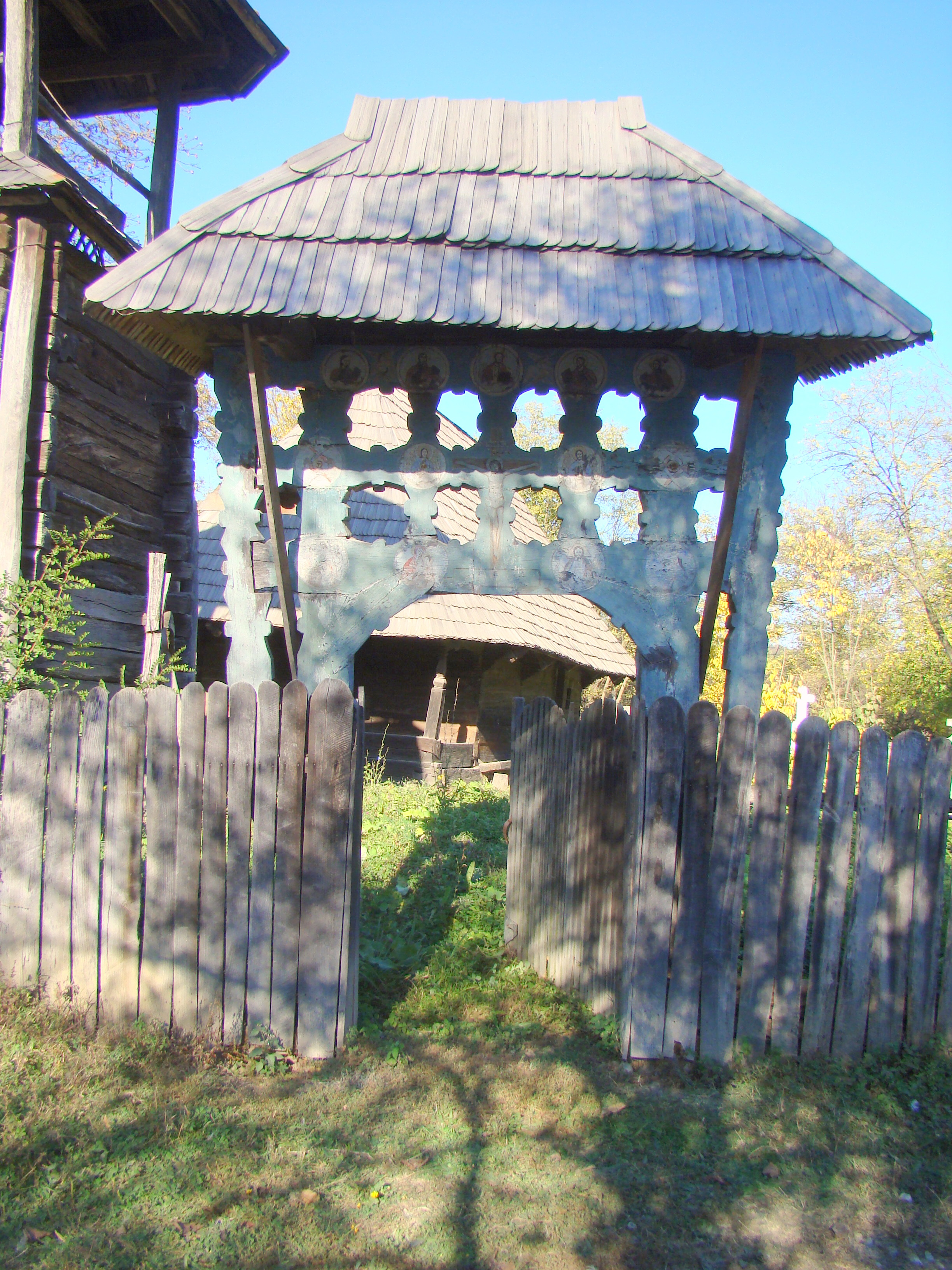 Wooden church in Sura, Gorj county, Romania